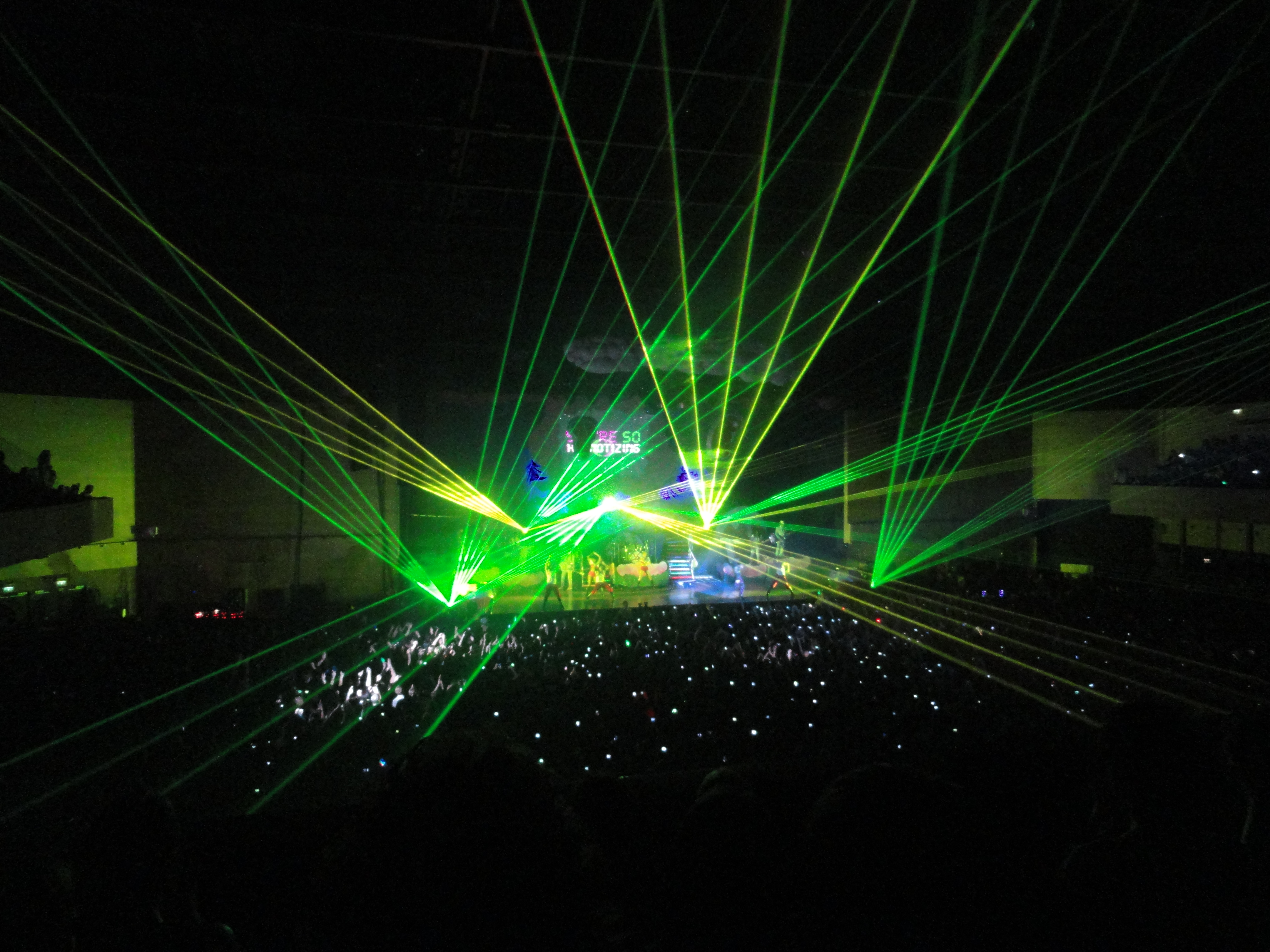 Katy Perry performing "E.T." in California Dreams Tour. March 31st, Bournemouth, England.